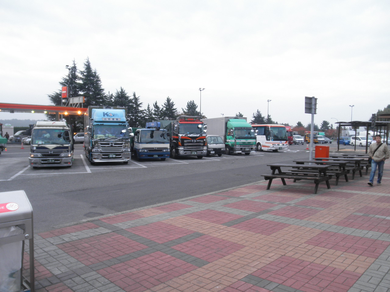 Kunimi Service Area on the Tohoku Expressway northbound line